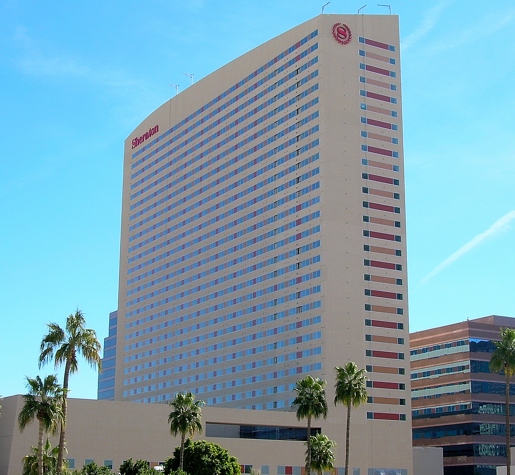 JCordova/self